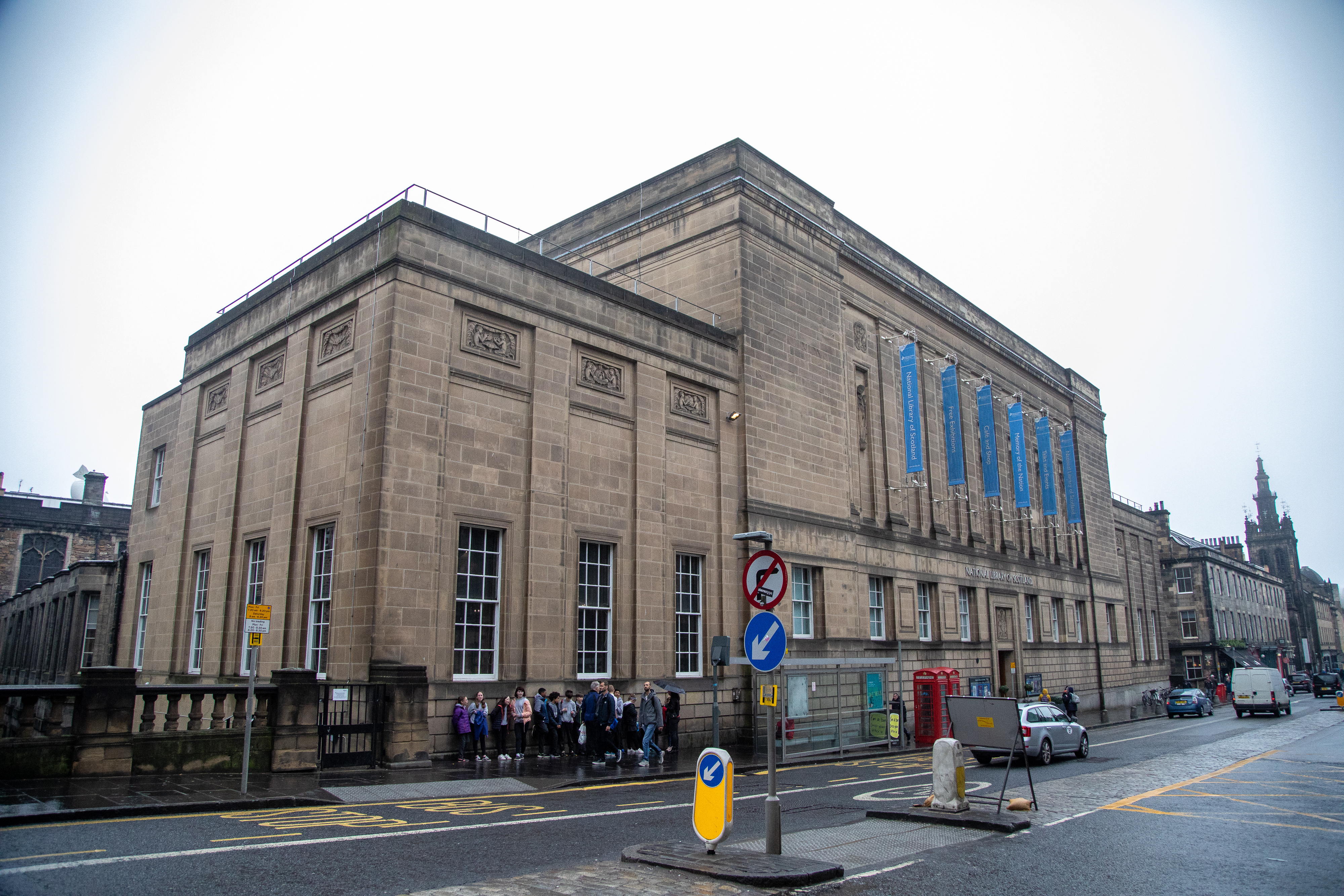 A view of the National Library of Scotland